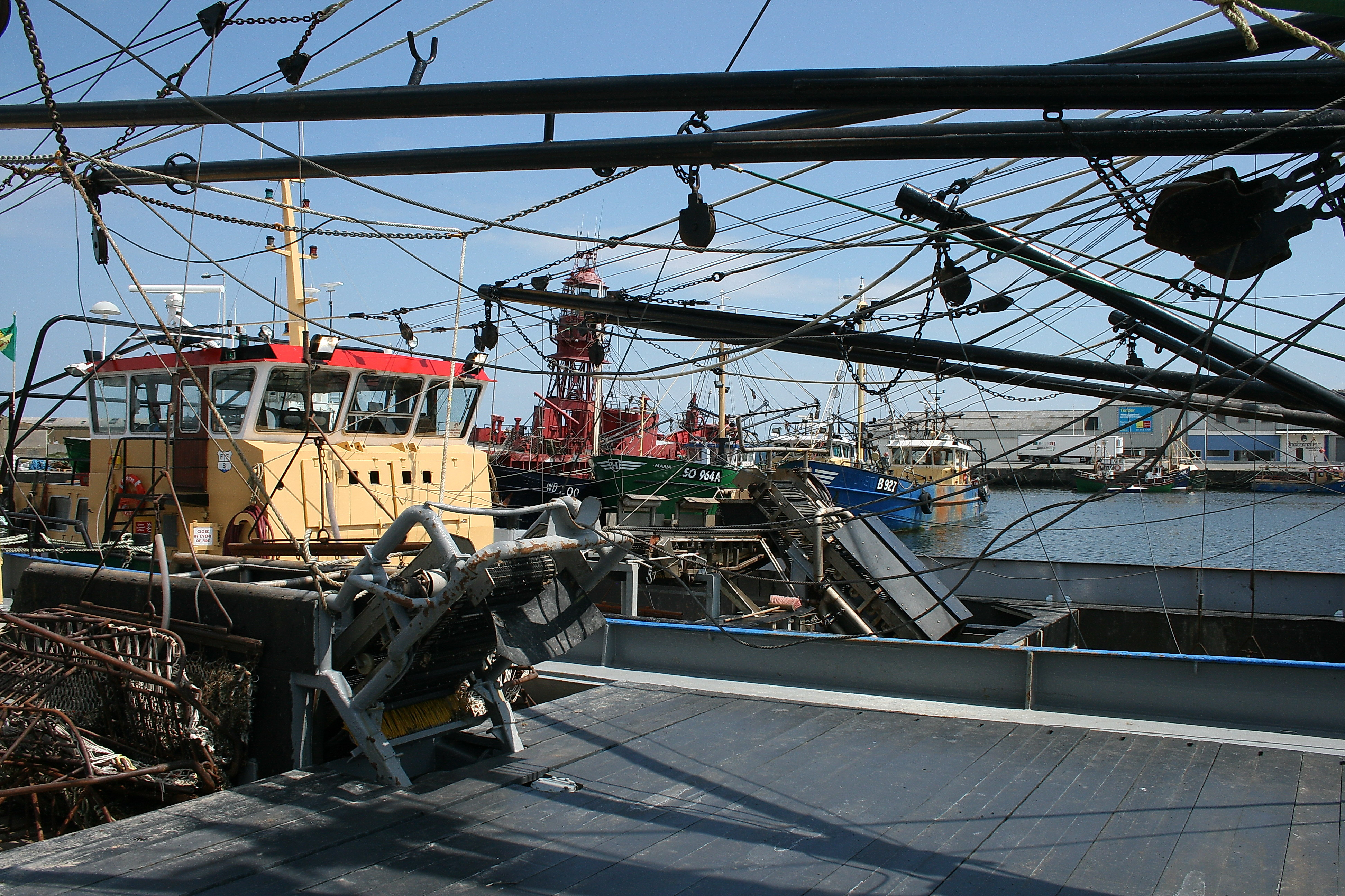 Arklow Harbour, County Wicklow